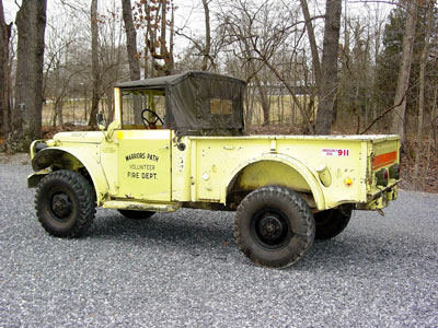 Source: Tennessee Division of Forestry Subject: 1953 Dodge M-37 3/4-ton 4x4 truck.